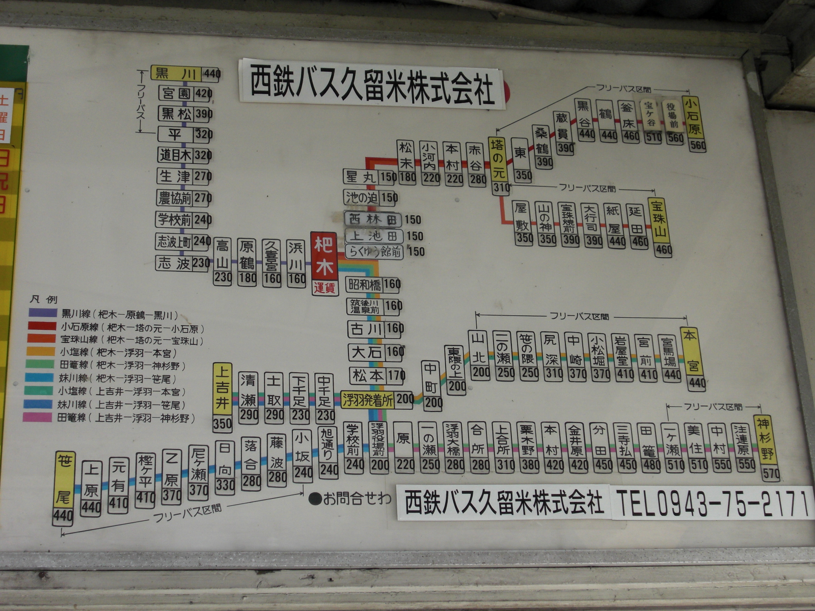 Map of bus routes operated by Nishitetsu Bus Kurume, installed at Haki Bus Stop in Asakura City, Fukuoka Prefecture, Japan